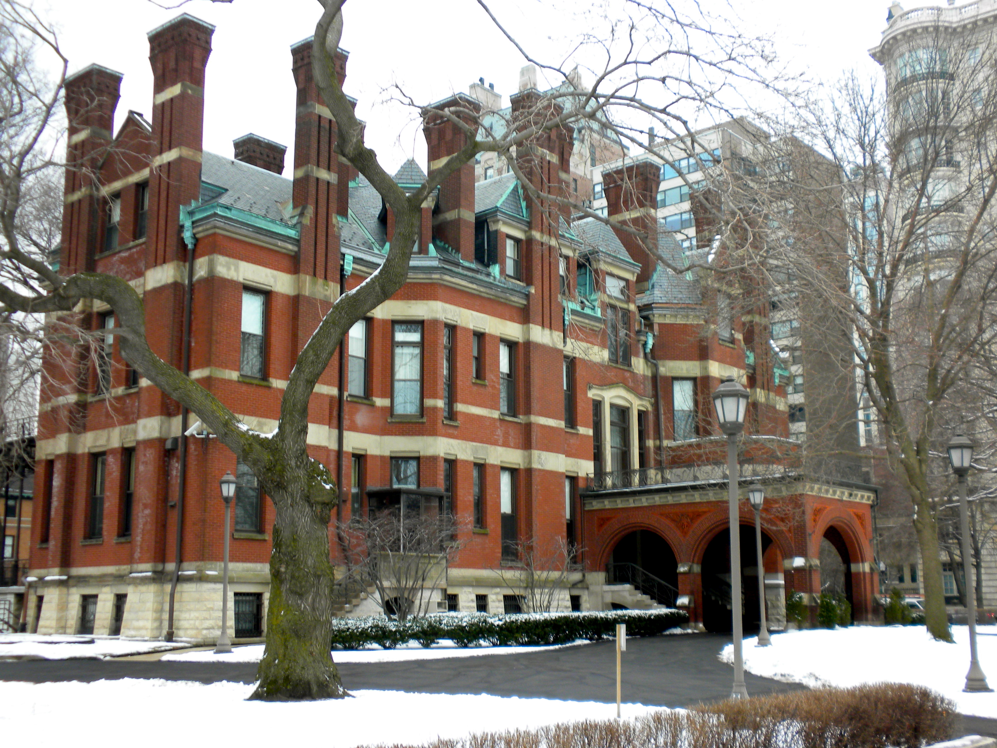 Archbishop's Residence, Chicago. On North Avenue, between Astor and State near the Lakefront. Famous Building before the archdiocese bought it. Served as a character (or at least location) in Frank Norris's novel "The Pit." Pope John Paul II stayed here while visiting Chicago. Not on the NRHP, but "Wooden Alley" behind it is.